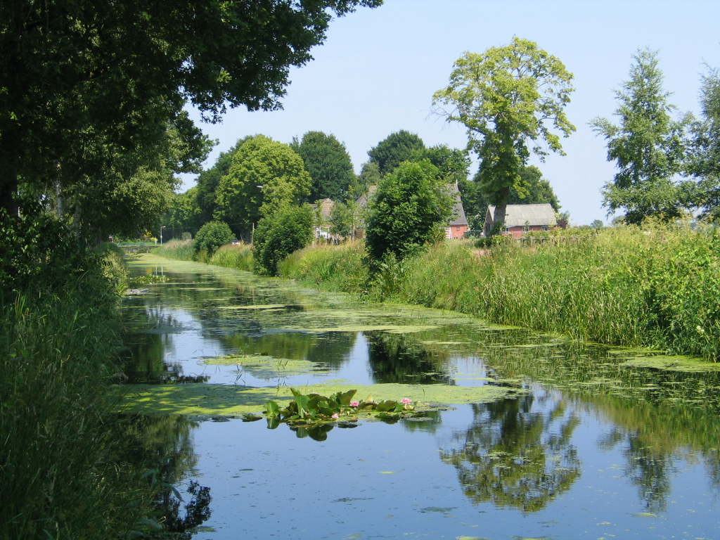 Canal in the S.E of Friesland, near Haulerwijk, heading to Veenhuizen